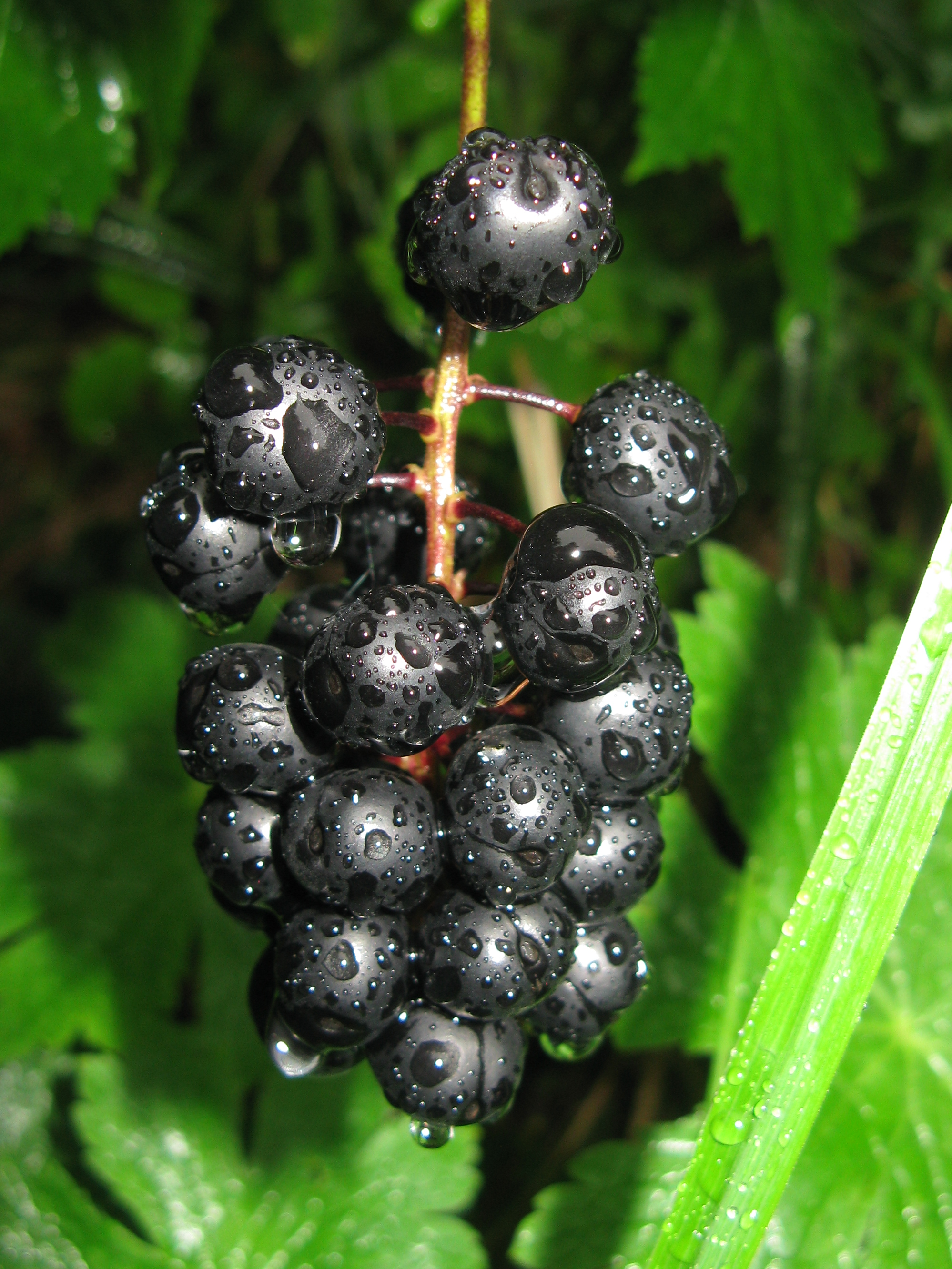 Fruits of Actaea spicata in Mountain Botanical Garden in Zakopane, Krupówki 10a street, Poland.